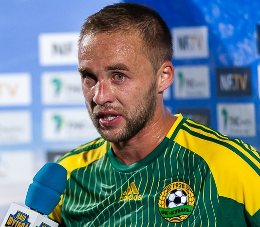 Vladislav Kulik